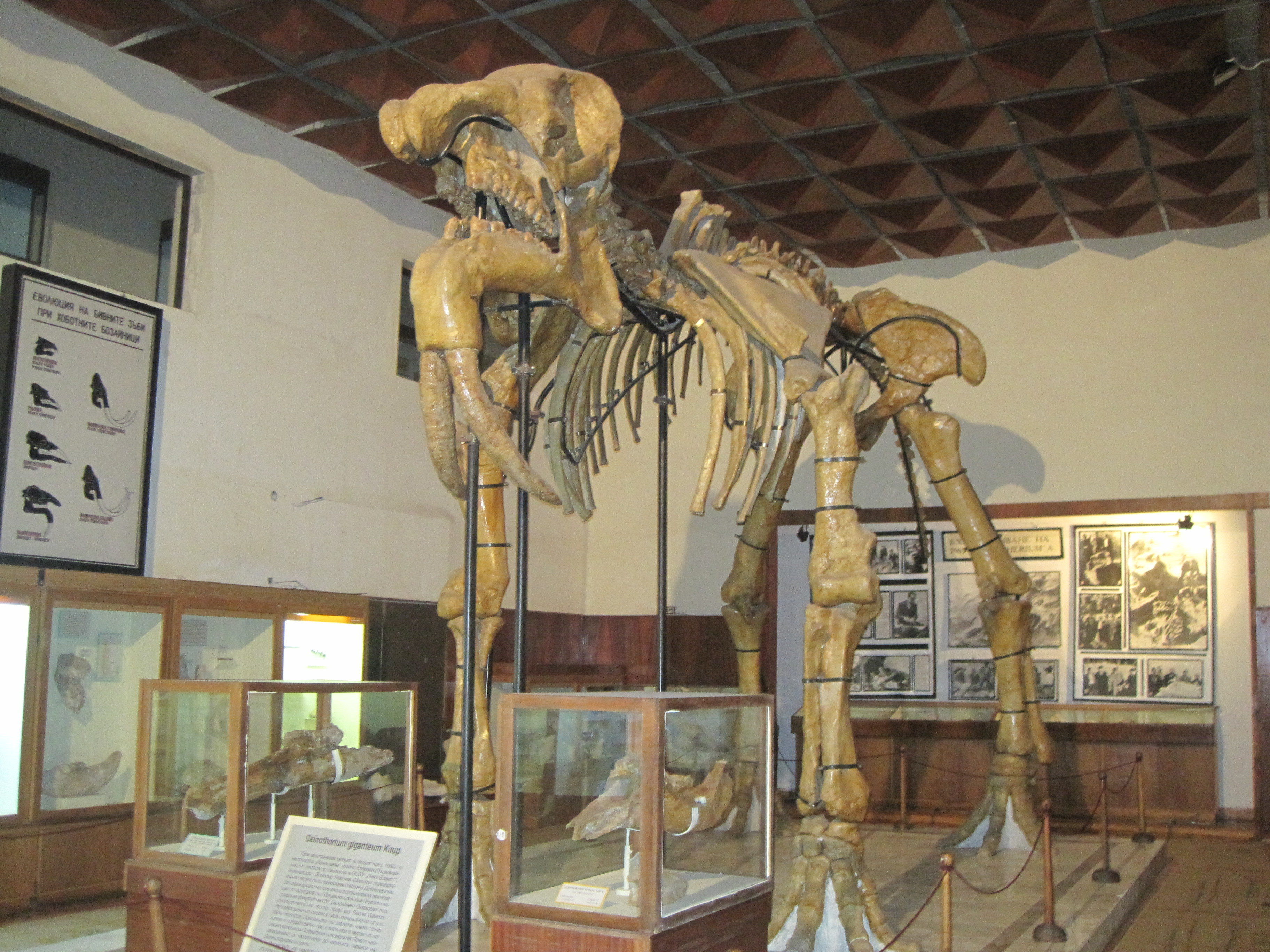 Reconstruction of Deinotherium giganteum Kaup - exhibit of the Paleontology Museum of Asenovgrad, Bulgaria